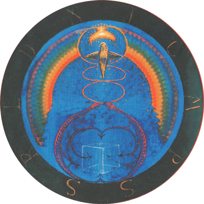 Eliphas Levi, in his Dogme et Rituel de la Haute Magie (p 364 / p 399 in the English translation as Transcendental Magic), represents the seven seals together, effectively 'sealing' the whole content of the Apocalypse (Greek for 'Revelation'). Rudolf Steiner's diagrammatic seals representations, as painted by Clara Rettich in 1911, are probably the best known amongst but few. These, to be sure, are clearly based on Eliphas Levi's own renditions. Rudolf Steiner's Sketches for seven "Apocalyptic Seals," 1907, pastels (executed in oil on canvas by Clara Rettich in 1907 and in 1911; Steiner's sketches for the first, fifth, and sixth seals have not survived).